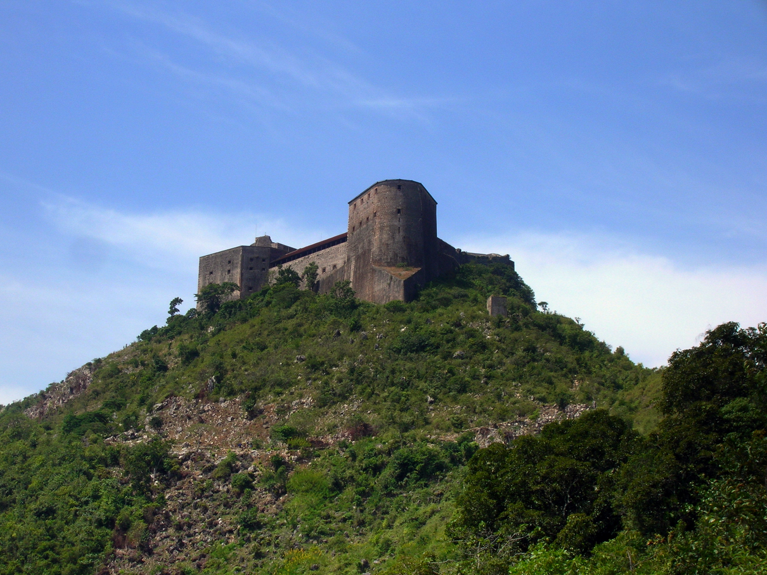 The Citadelle Laferrière, near Milot in Haiti, seen from the access path.